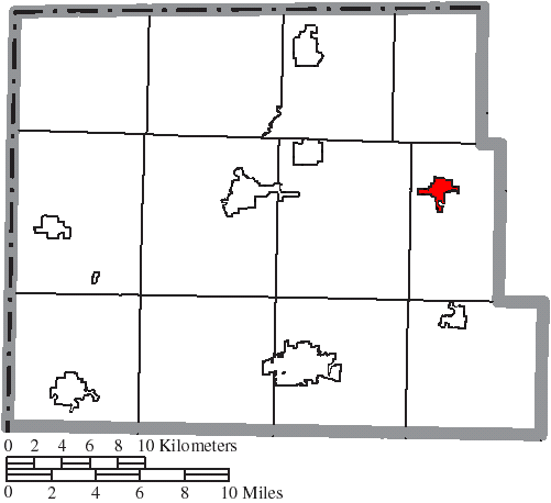 Map of the municipal and township boundaries of Williams County, Ohio, United States, as of the 2000 census, with the location of the village of West Unity highlighted. Township borders are shown only in unincorporated areas in order to differentiate incorporated and unincorporated areas more clearly.